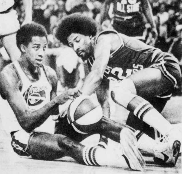 Professional basketball players David Thompson (left) and Julius Erving (right)